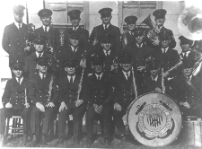 USCG Band probably in 1920s